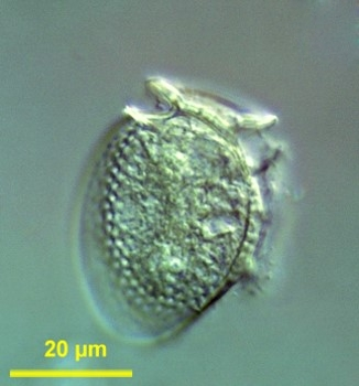 Dinophysis acuminata Claparède et Lachmann, 1859 Formalin fixed sample, surface, sampling station 7 (North Sea). Species originally described in1859. The antapical portion of the cell is rounded and can bear small protruberances. The sulcal list is relatively narrow and of similar width along its entire length. Dinophysis acuminata is a producer of DSP toxins. The taxonomic position of this species is still uncertain with many, very similar species existing which could be sub species of Dinophysis acuminata. Such similar species are for instance Dinophysis sacculus, Dinophysis punctata, Dinophysis ovum. description author alexandra entered by alexandra entered date 20070802